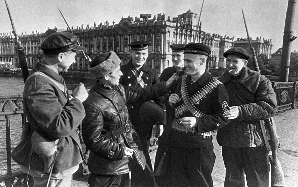 “Defenders of besieged Leningrad”. Workers of the Kirov plant and young sailors on the bridge. Defenders of Leningrad during the siege.